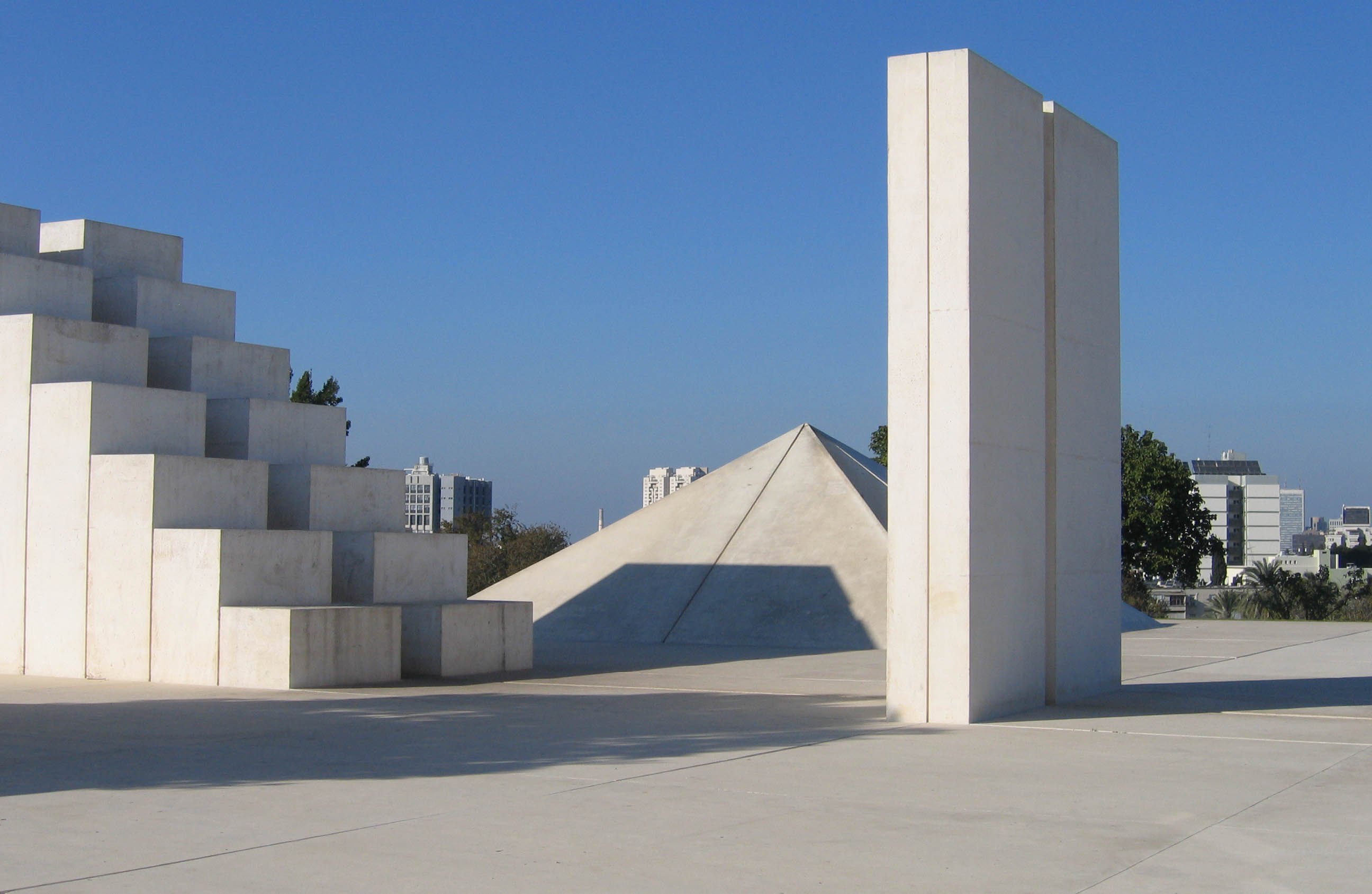 Kikar Levana (in he: "White Square") (1989) by Dani Karavan, Wolfson Park, Tel Aviv-Yaffo.